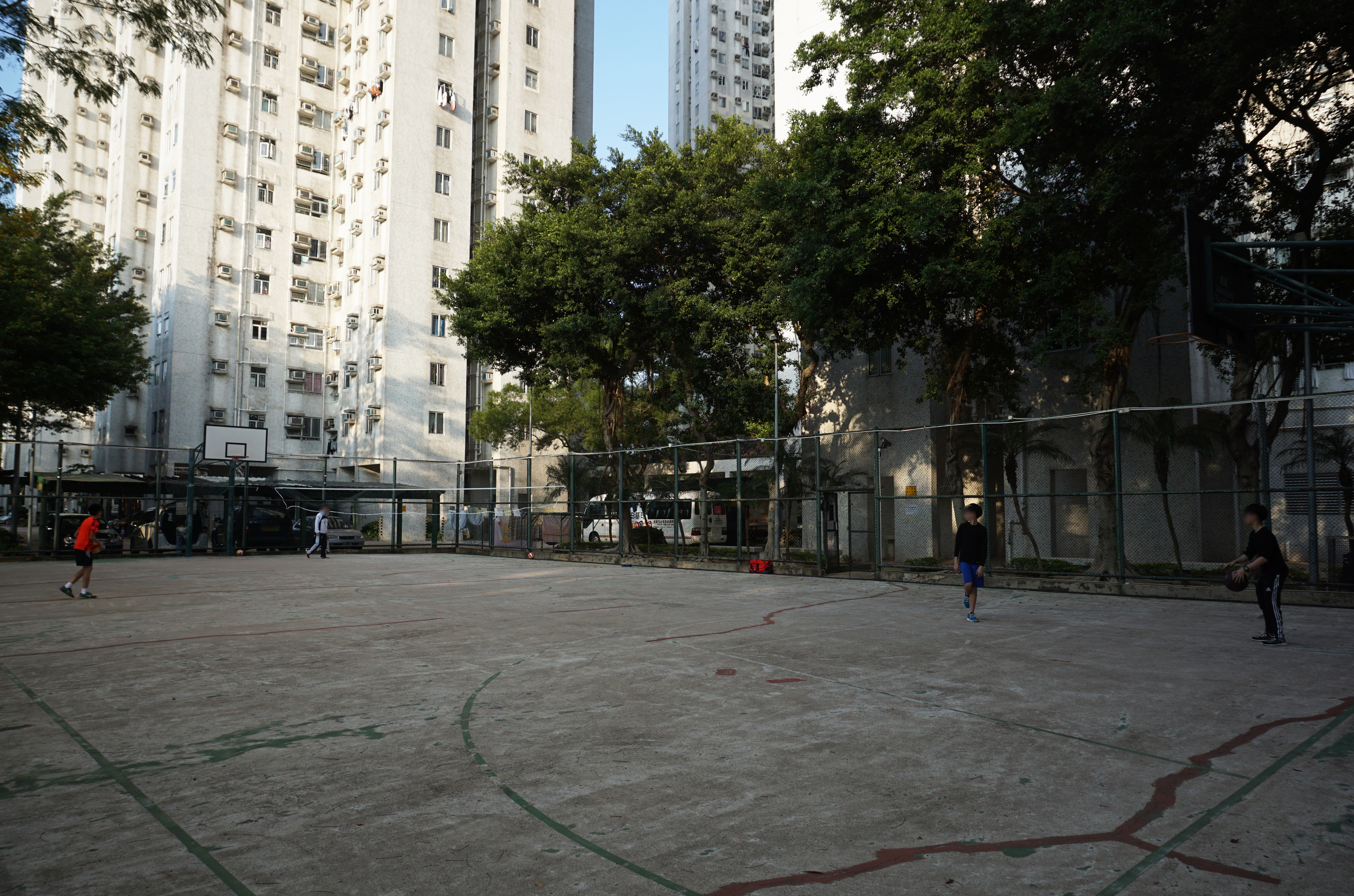 Wing Fok Centre in Luen Wo Hui, Hong Kong.